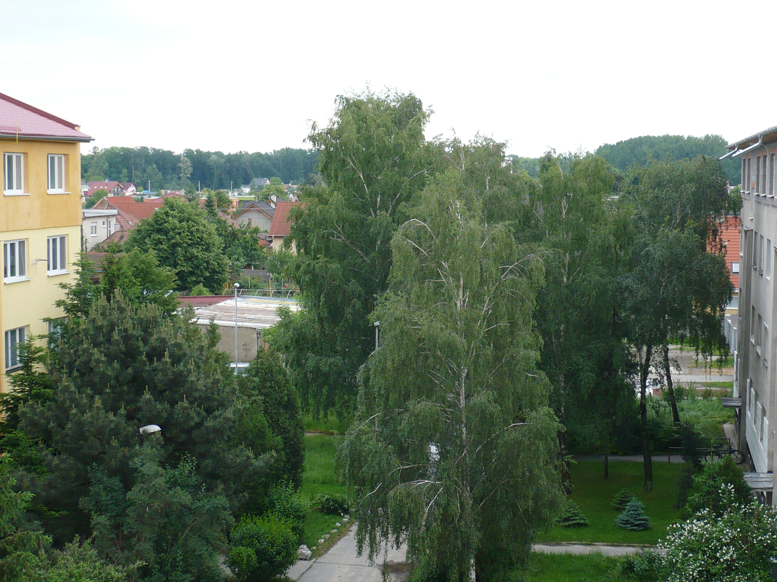 Farna Ivanka pri Dunaji Slovakia